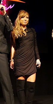 yuri from m.o.v.e in Singapore Anime Festival Asia 2012